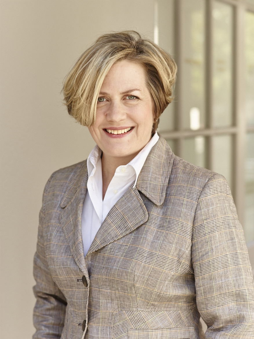 photo by Adam Lawrence